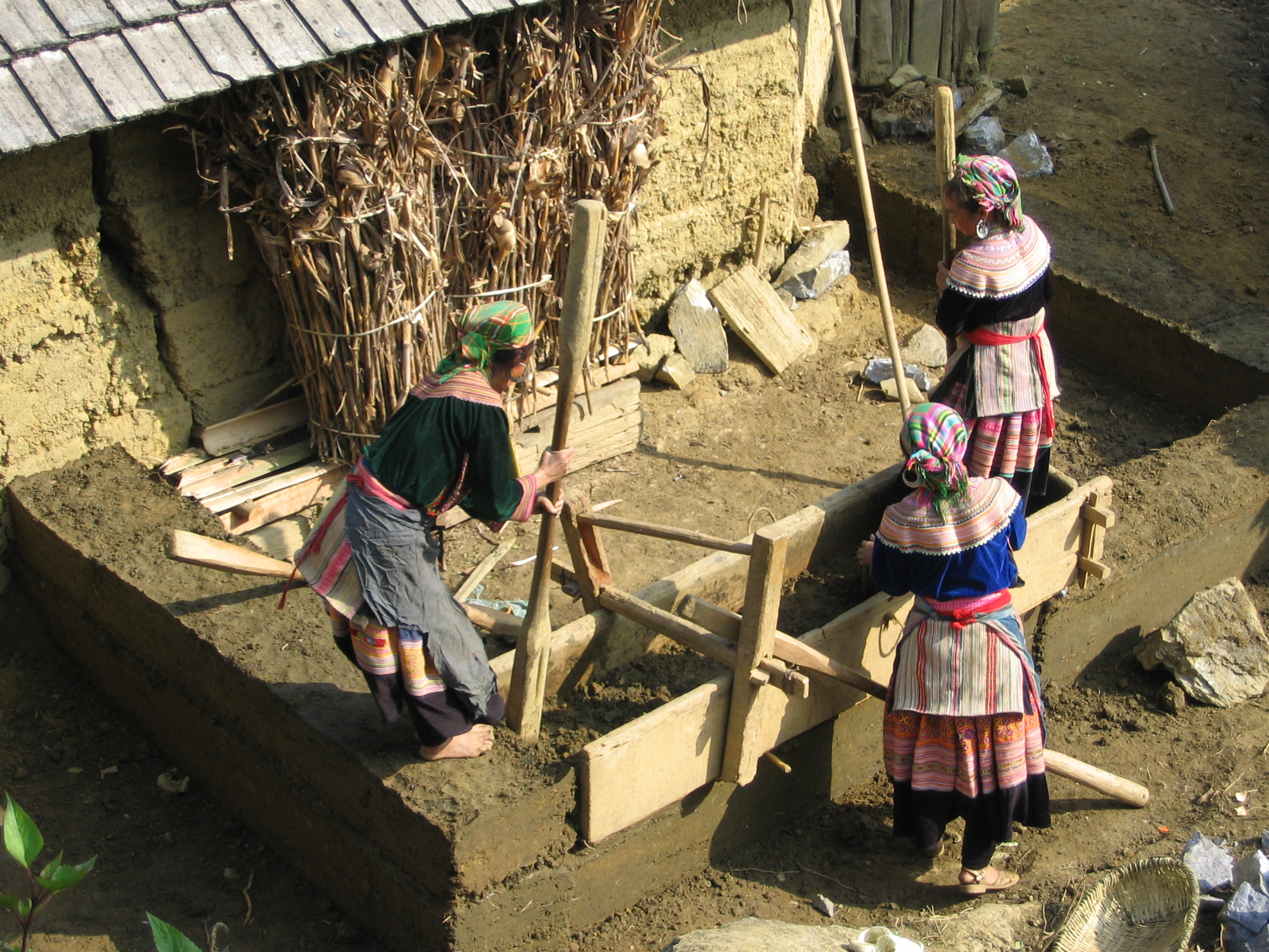 House building in Northern Vietnam by Alfred Boc Own Work December 2005